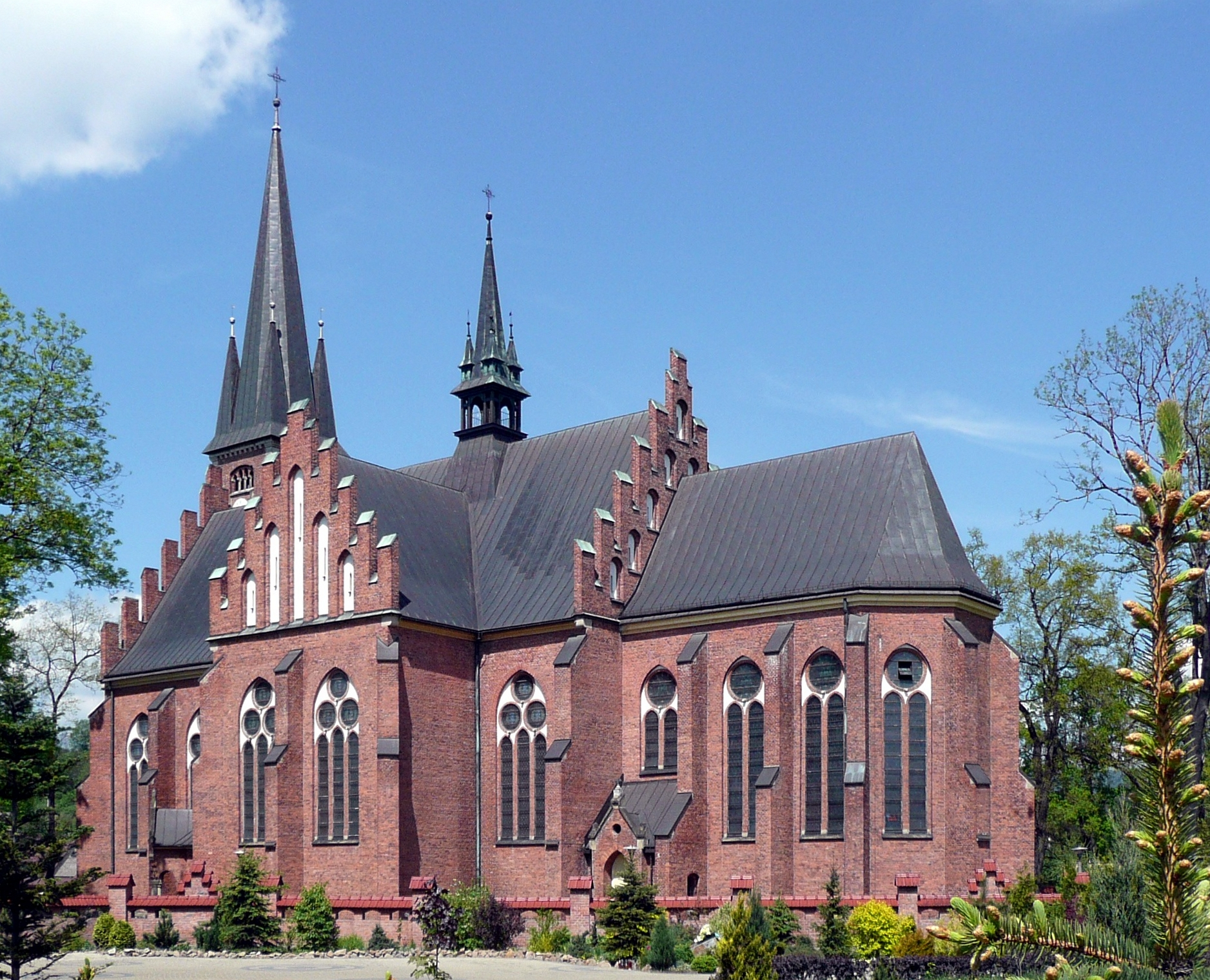 The church in Rabka-Zdrój, Poland.